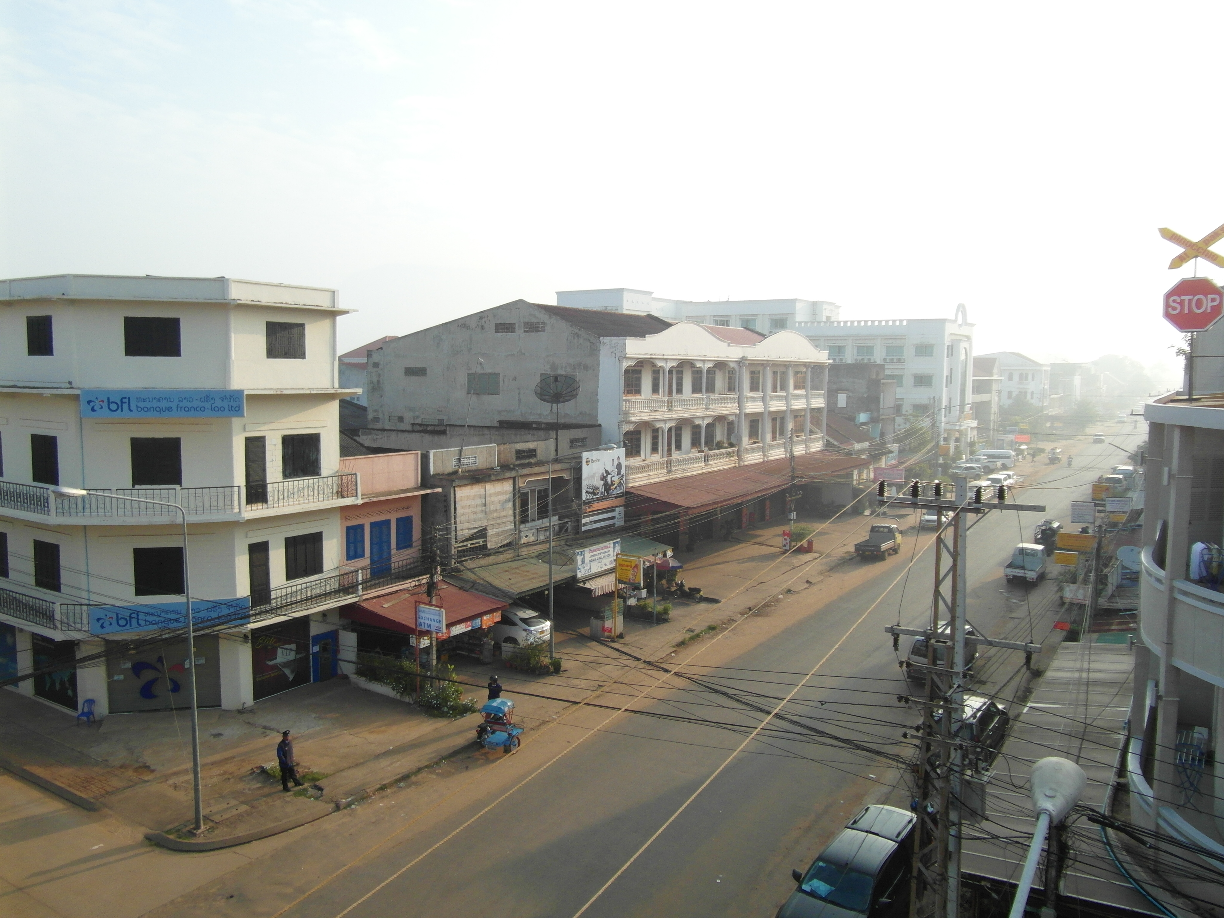 Sunrise in Pakxe, seen from Royal Hotel terrace